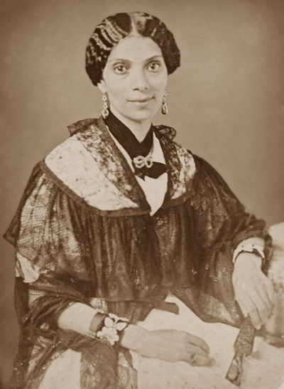 Depicted person: Mary S. Peake – American teacher and humanitarian